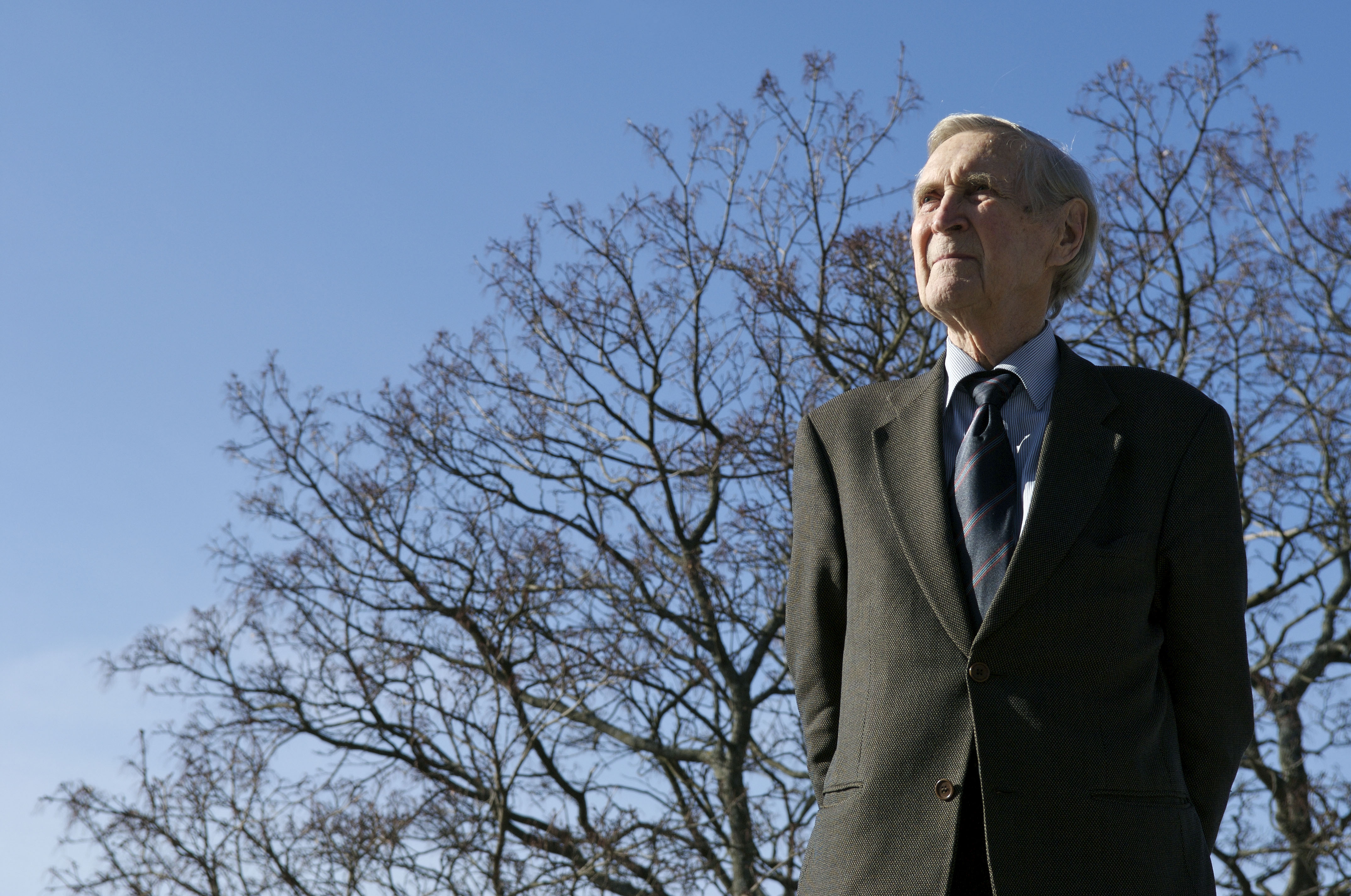 Gunnar Sønsteby